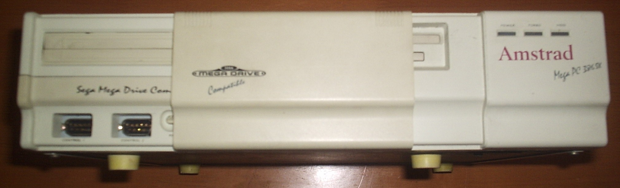 A view of the front of an Amstrad Mega PC.